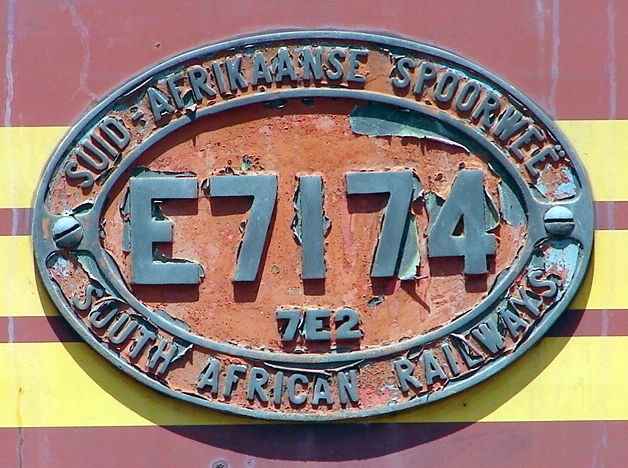 SAR Class 7E2 Series 1 E7174 number plateLocation: Pyramid South, Pretoria, Gauteng